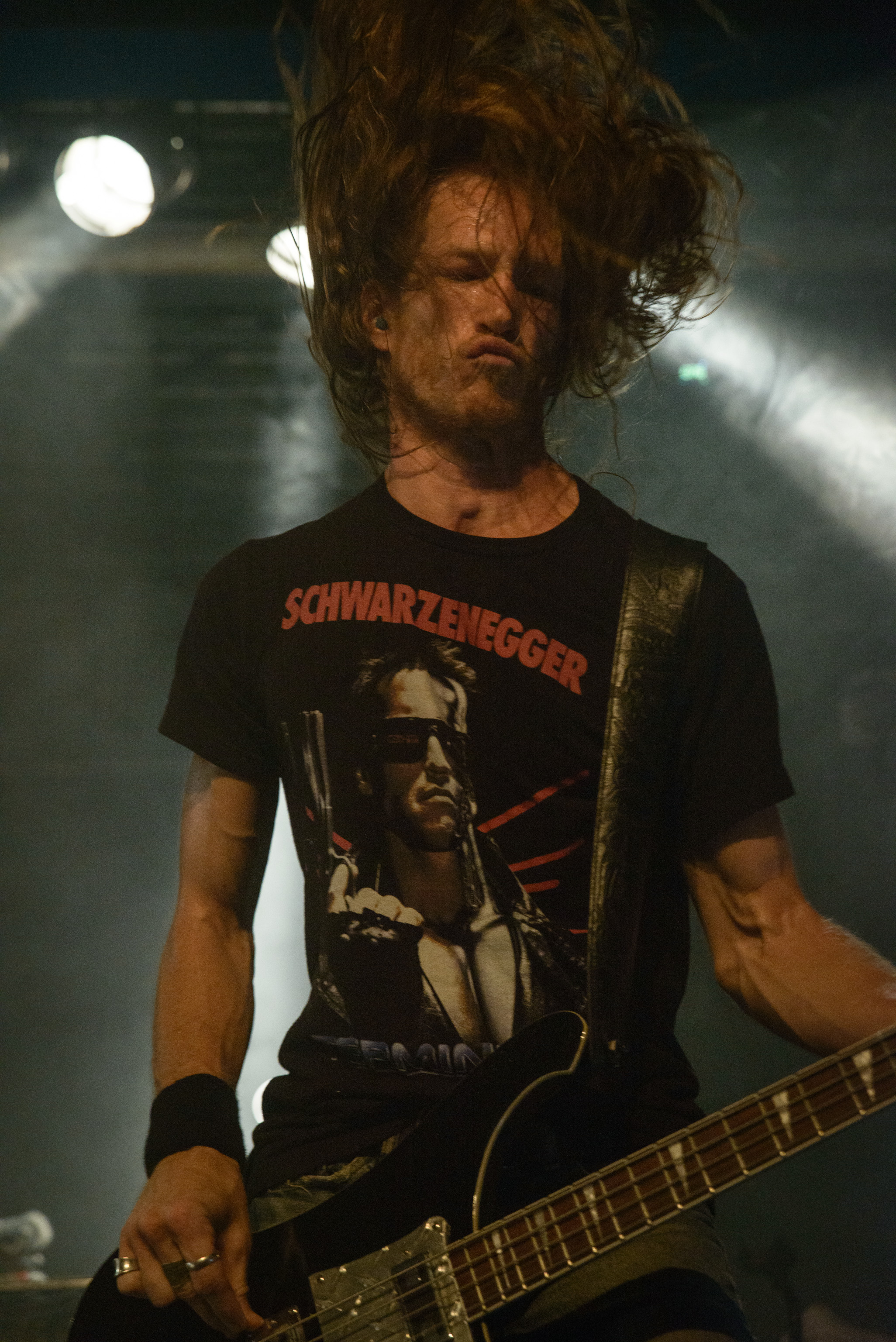 Death Angel Live @ Free & Easy Festival 2015